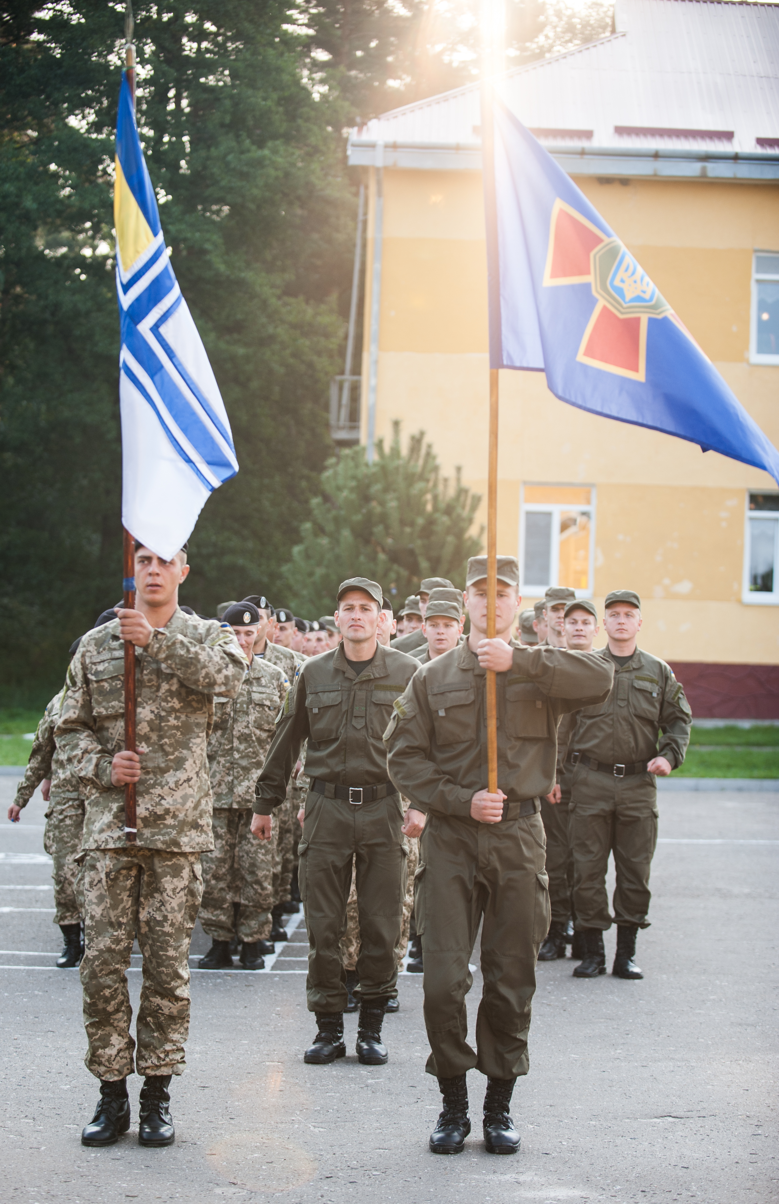 YAVORIV, Ukraine -- A Soldier from the Ukrainian military stands in formation during Exercise Rapid Trident’s opening ceremony here Sept. 15. Rapid Trident is an annual U.S. Army Europe conducted, Ukrainian led multinational exercise designed to enhance interoperability with allied and partner nations while promoting regional stability and security. (U.S. Army photo by Spc. Joshua Leonard)